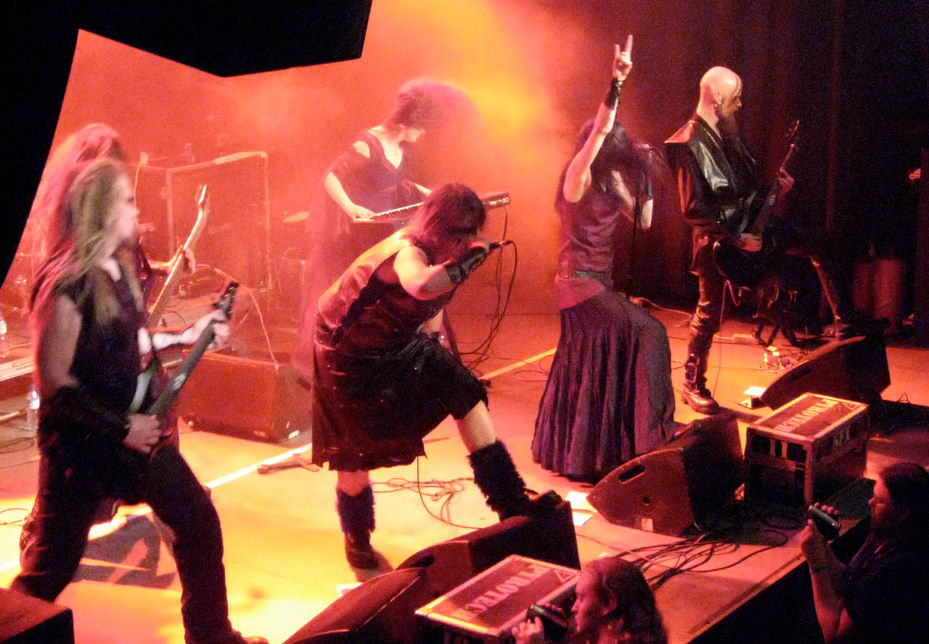 Finnish heavy metal band Battlelore at Tuska Open Air 2008